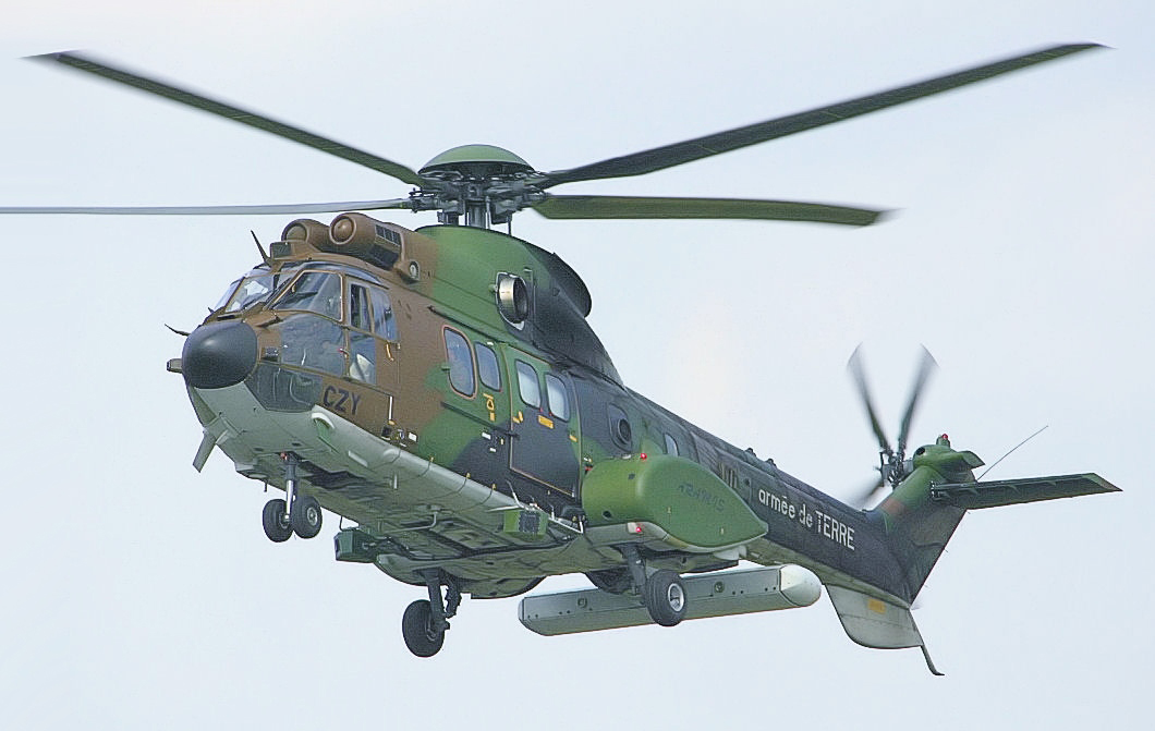 Cougar - RIAT 2005 (out cropped)